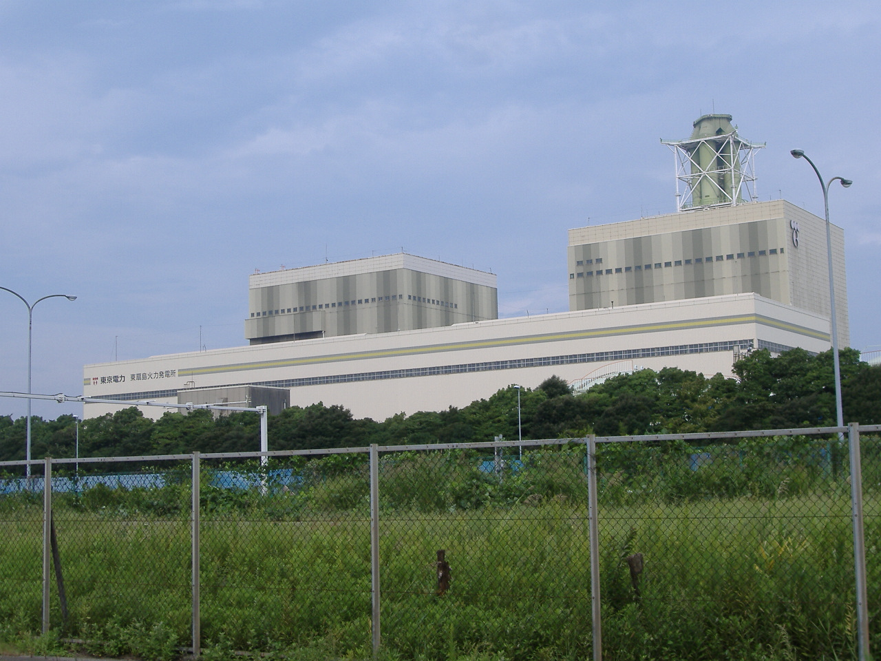 TEPCO HigashiOhgishima Thermal power station (Kawasaki, Japan)